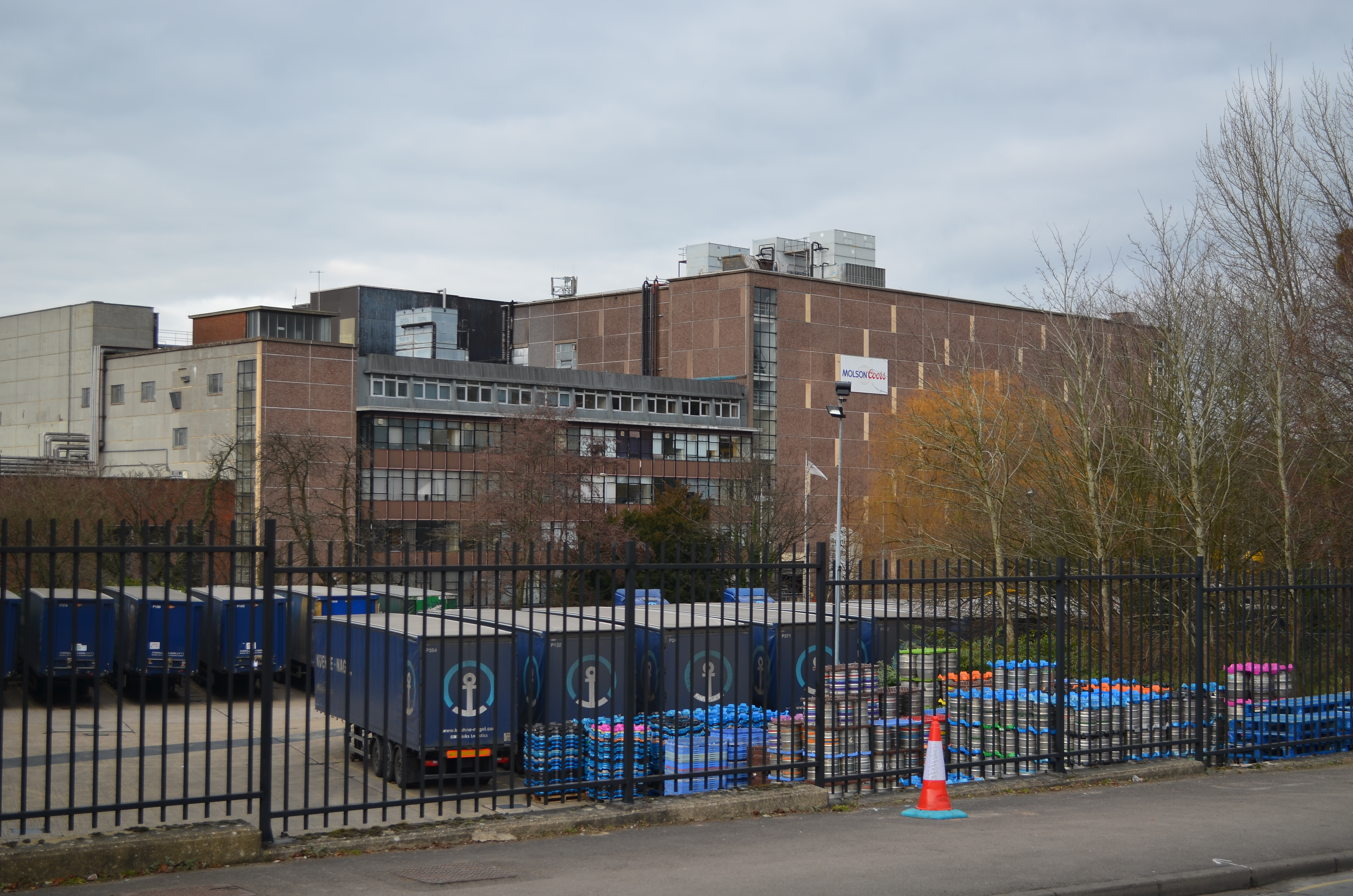 Molton Coors brewery, Alton, Hants